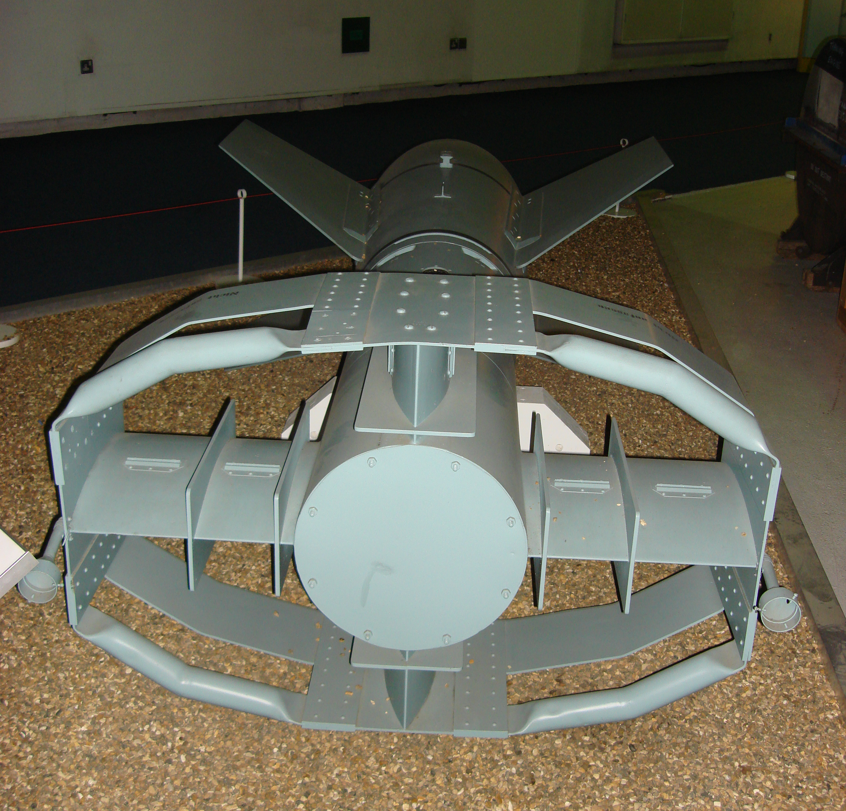 PC1400X 'FRITZ X' guided bomb at the RAF Museum London